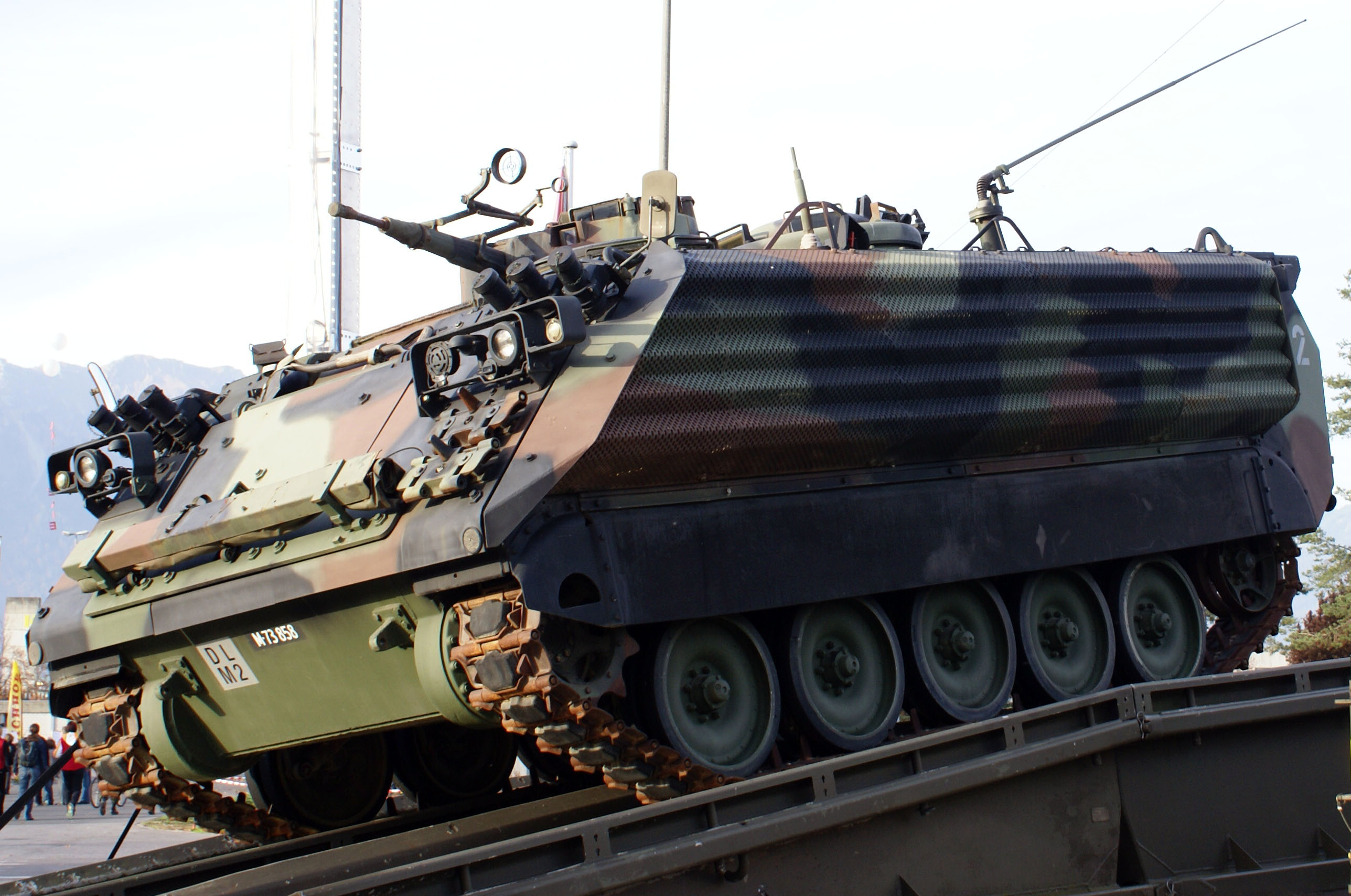 Swiss Army. M113 ATC (improved) for mechanised infantry. US import.